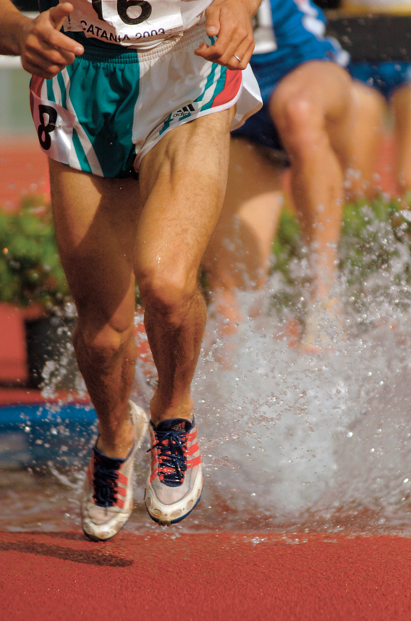 031206-N-6967M-002 Athletes competing in the 2003 Military World Games pentathlon showed off their skills in running, swimming, horseback riding, sharp shooting and fencing. The Military World Games in Catania, Italy consisted of 86 participating countries and are designed to promote "Peace through Sports.” Russia won the overall medal competition at the games with 108, including 39 gold. The United States, suffering from a lack of participation, was 18th with four medals. (All Hands, April 2004, pg. 17) Photo by Photographer's Mate 1st Class (AW) Shane T. McCoy. (RELEASED)